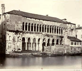 Carlo Naya (1816-1882) - "Venice, Fondaco dei Turchi". (In 1860, before the restoration of the facade).